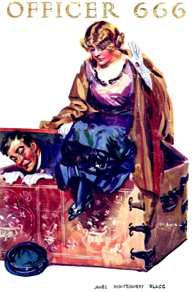 Book cover for Officer 666, author Barton Wood Currie & Augustin MacHugh. Published H.K. Fly Company, New York, 1912.